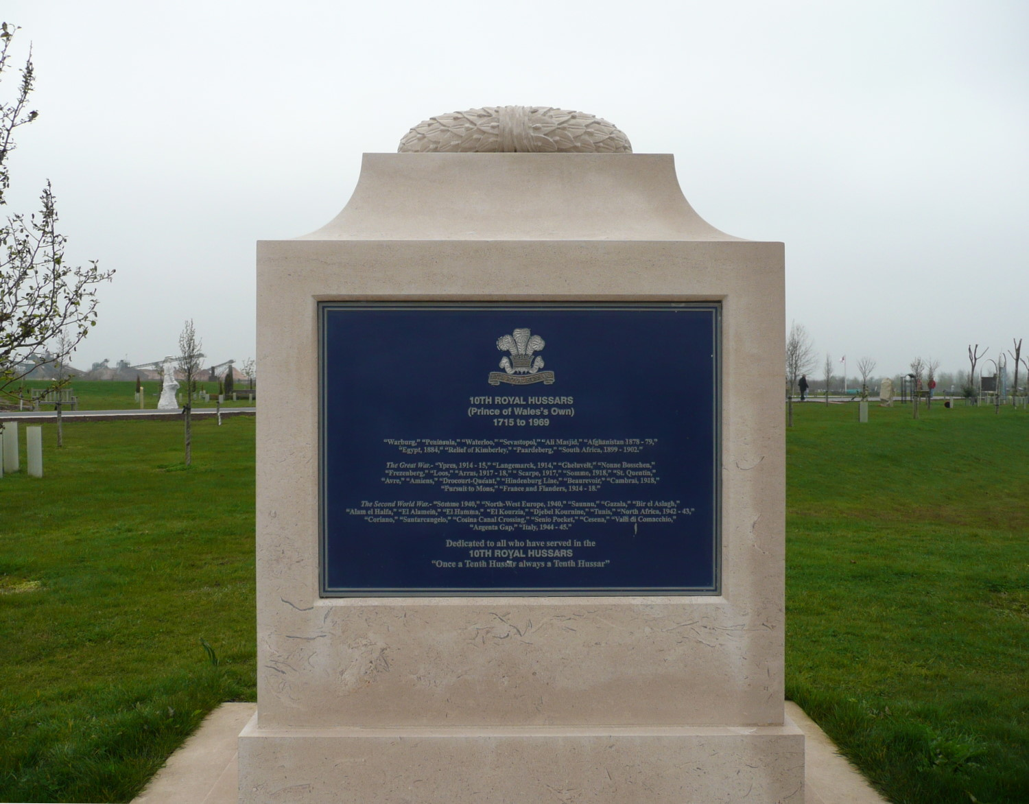 10th Royal Hussars monument at the National Memorial Arboretum